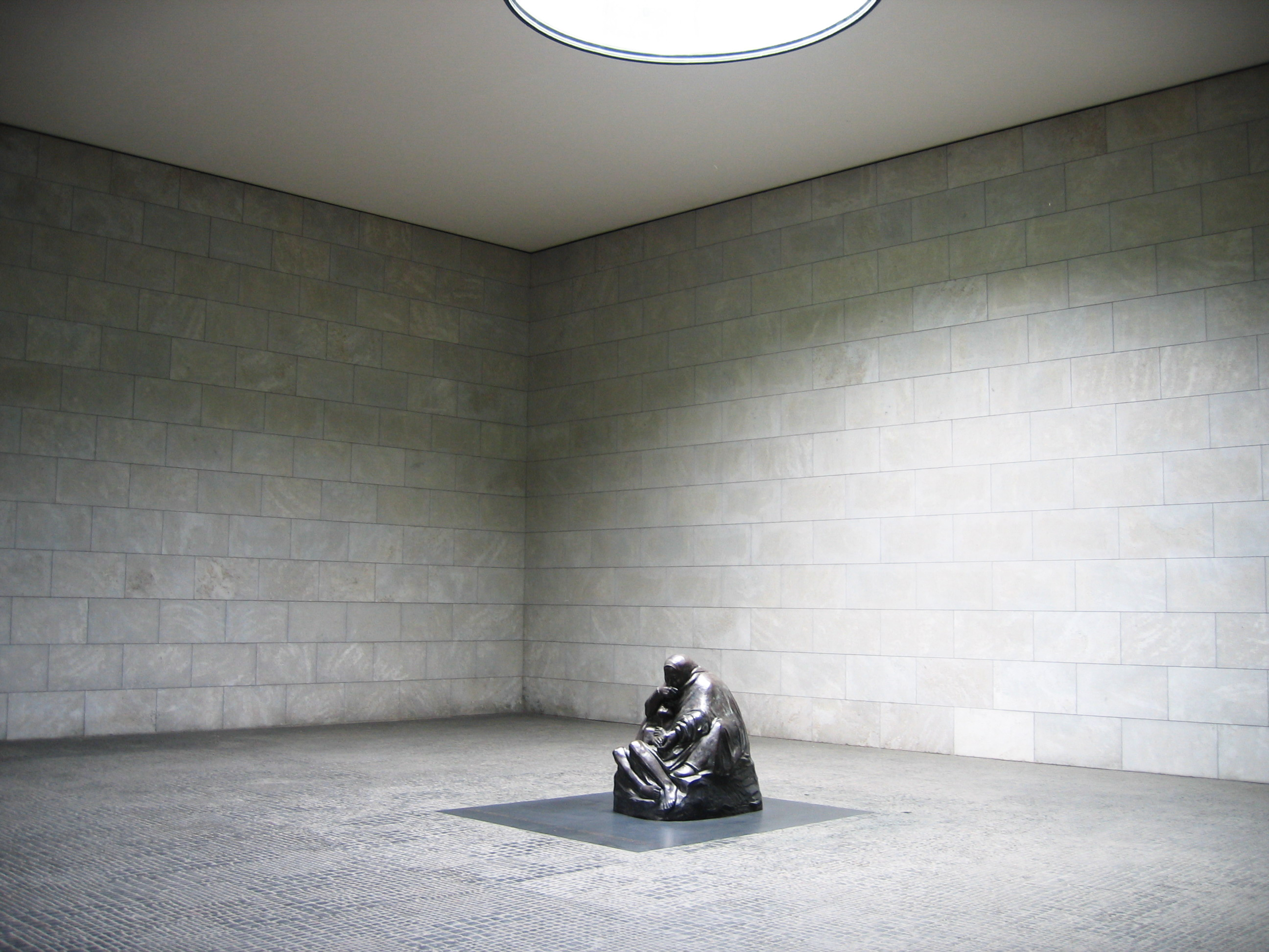 Berlin - The interior of the Neue Wache, showing the Käthe Kollwitz sculpture